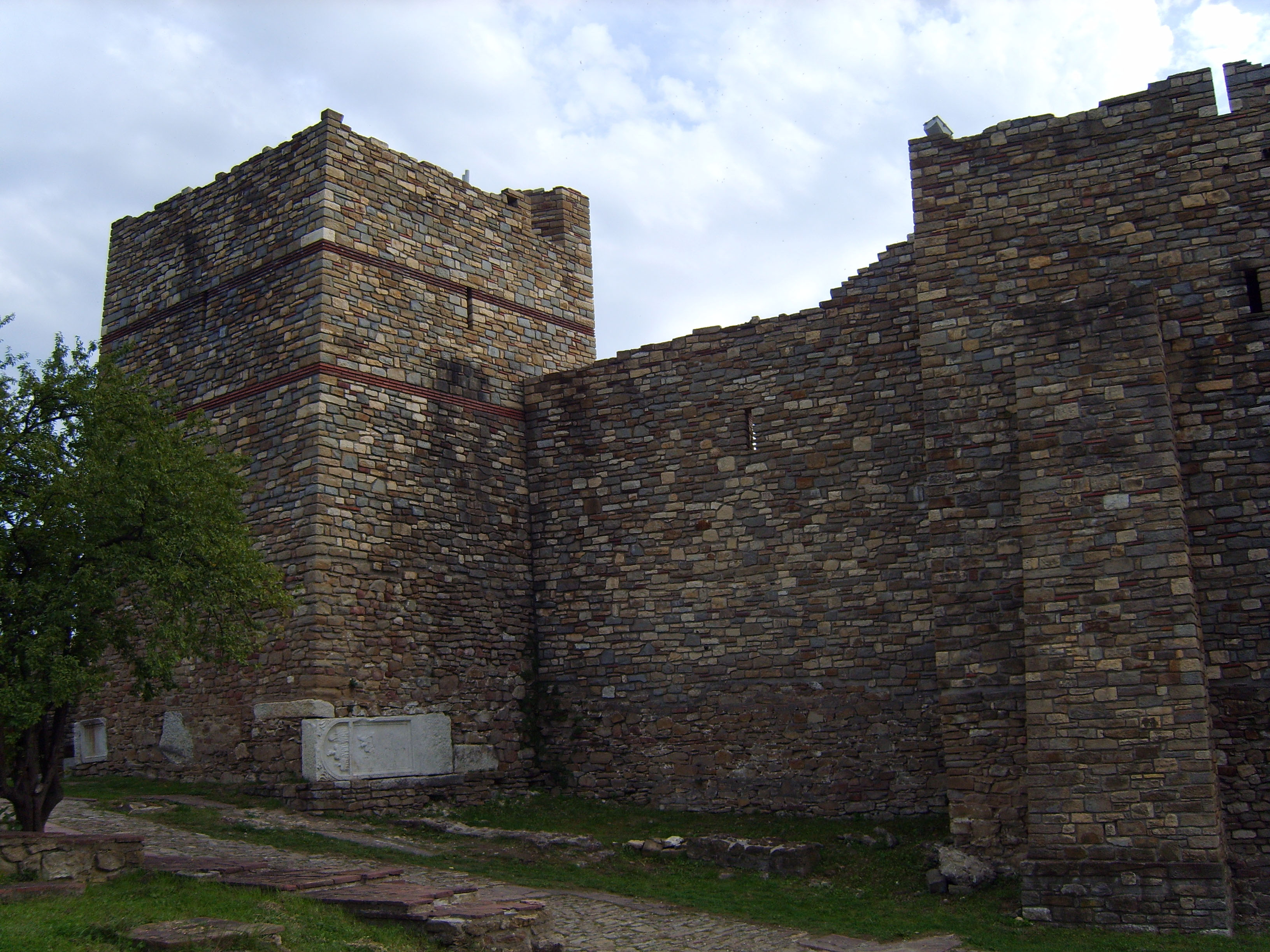 Roman gravestone, Royal Palace in Tsarevets, Veliko Tarnovo